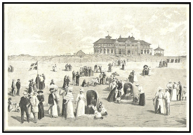 Image in Illustreret Tidende in connection with the opening of Fanø Nordsøbad on the Island of Fanø, Denmark on 22 June 1892.